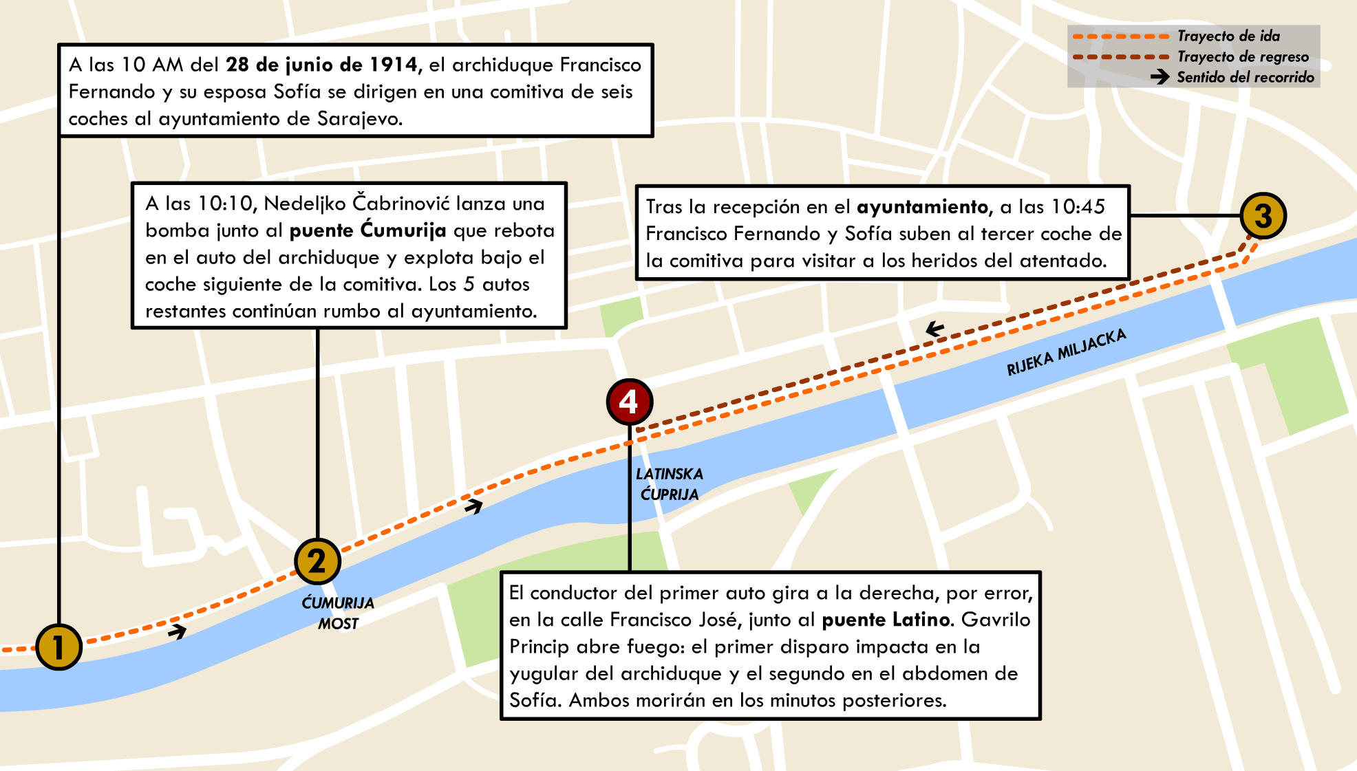 Chronology of the Sarajevo attack, the assassination of the archduke Franz Ferdinand of Austria in 1914